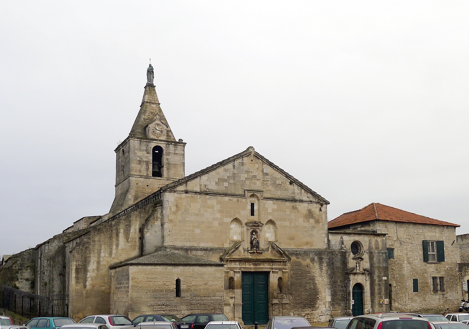 La Major church - Arles